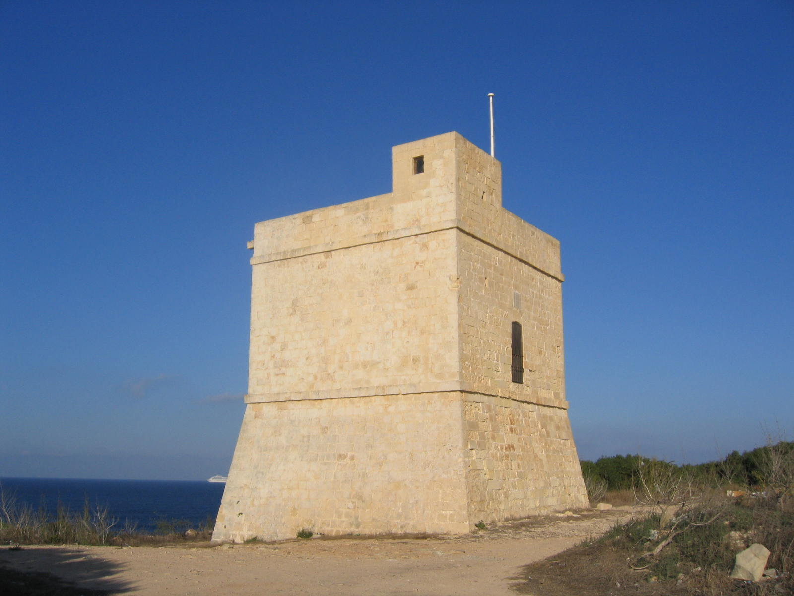 Ghallis tower from Shoreward. Near Bugibba, Malta Copyright H.J.Moyes Sept 2005. This media is about Maltese cultural property with inventory number 51.